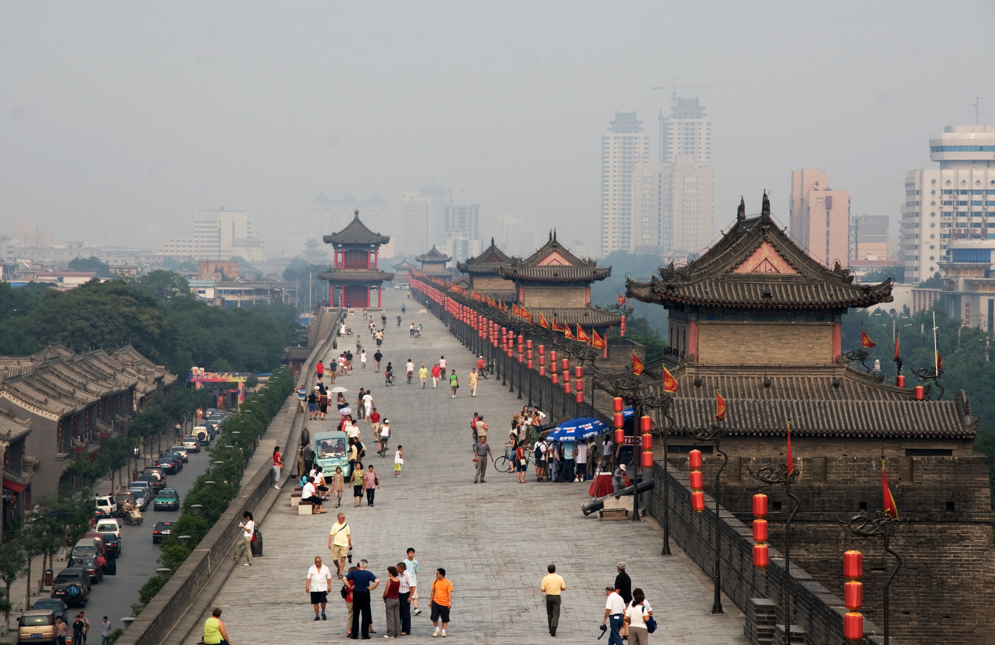 City Wall in Xi'an, China